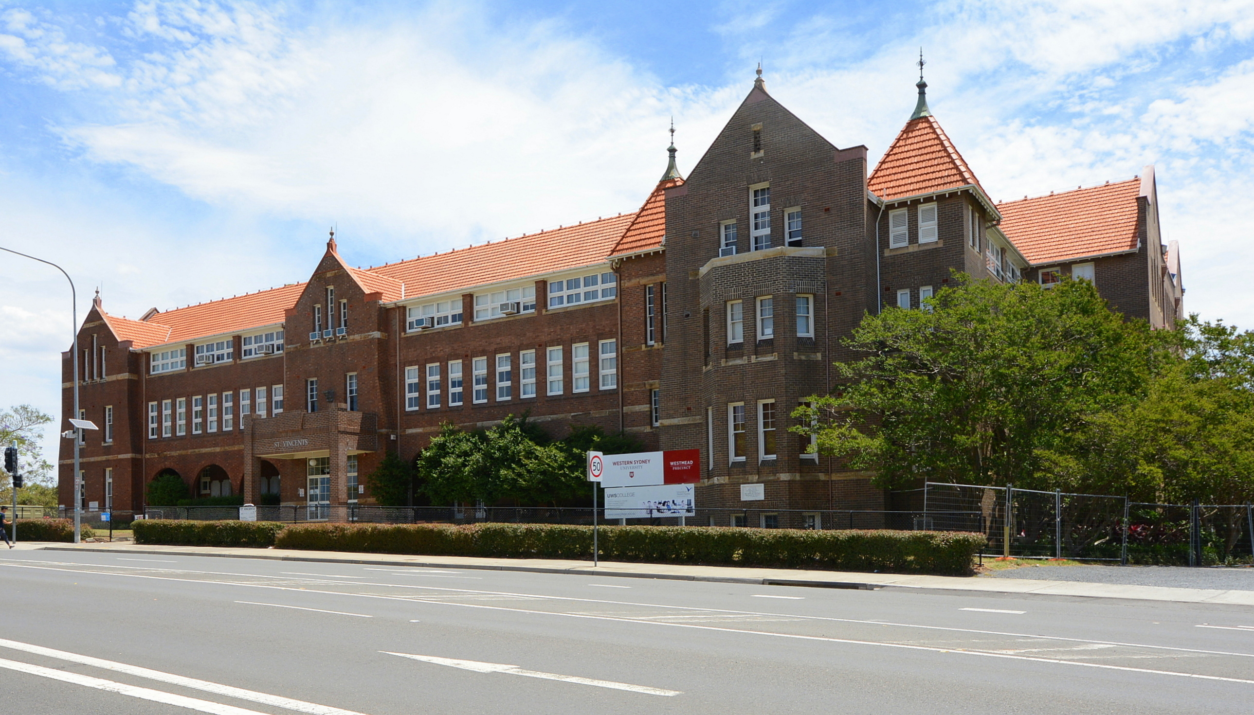 Westmead Precinct, University of Western Sydney, Westmead, Sydney